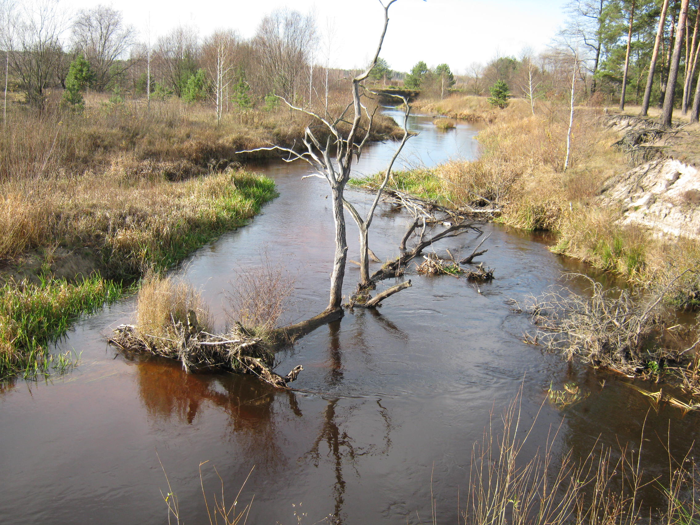 р. Льва